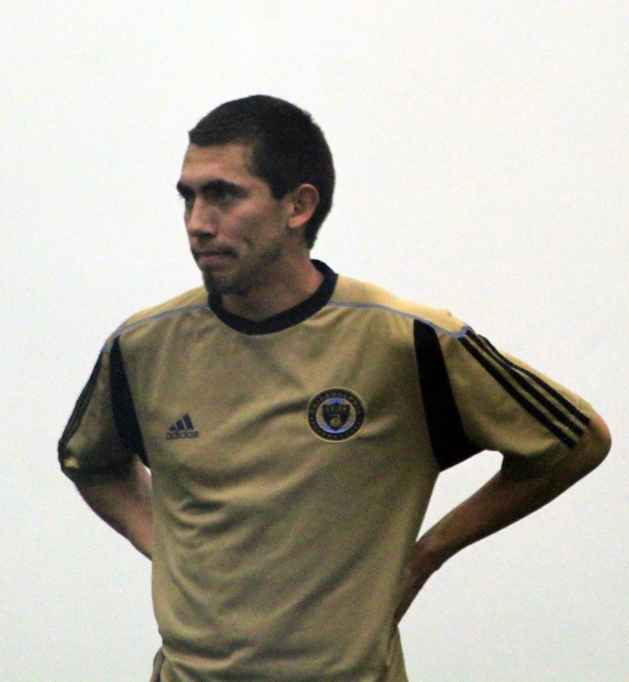 Michael Farfan participating in preseason training, with the Philadelphia Union, at YSC Sports in Wayne. January 28, 2011.